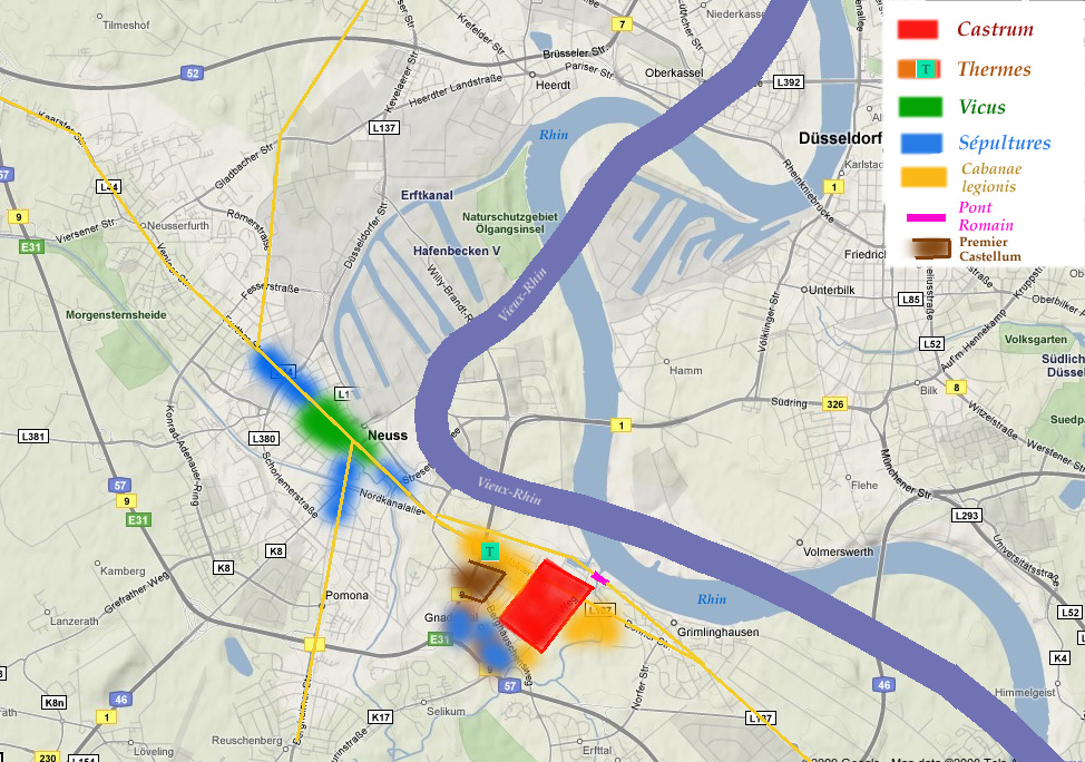 map of Novaesium (Neuss) in 120